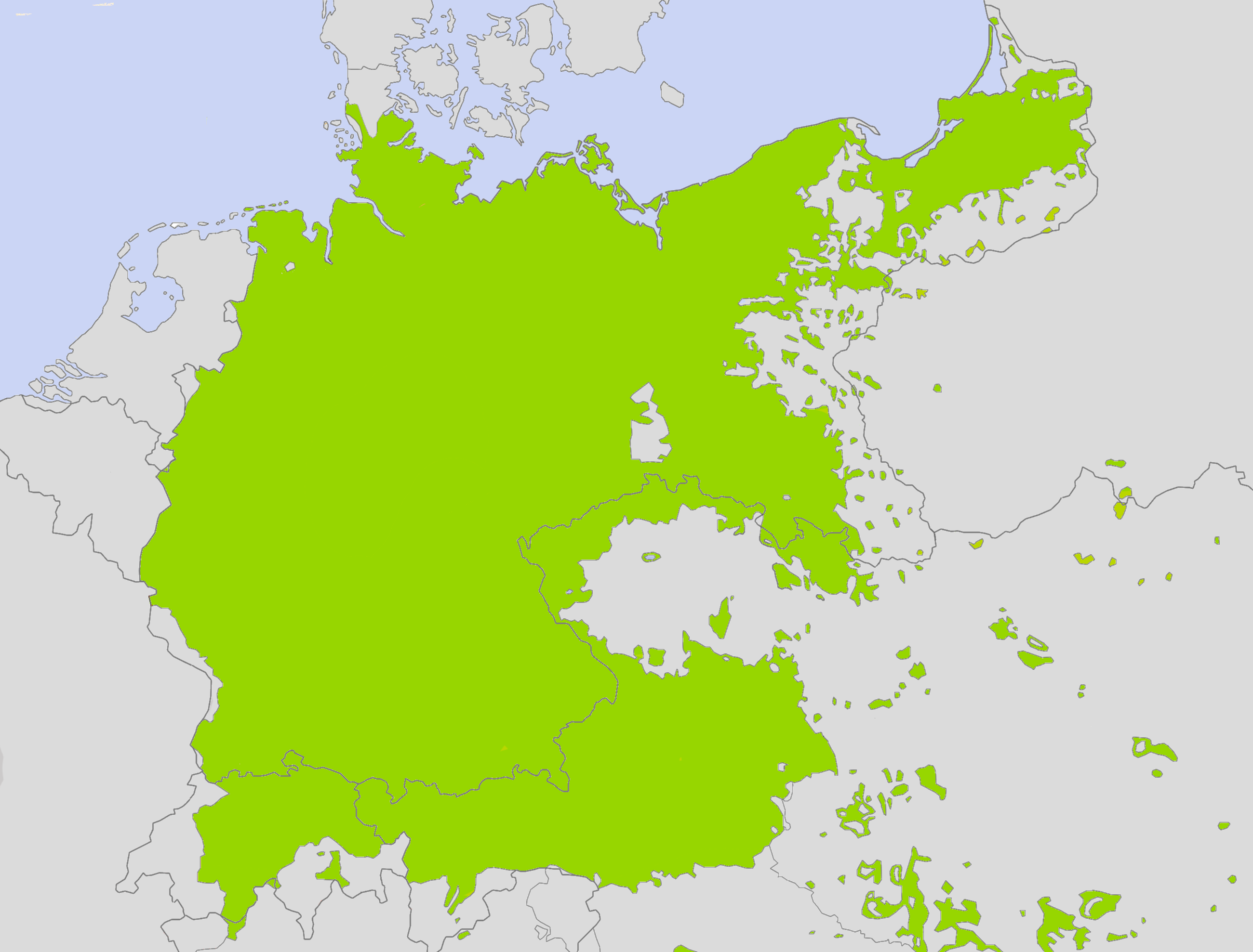 A map of the linguistic situation in Central Europe around the year 1910. Based on a map by Dr. V. Schmidt and Dr. J. Metelka. NOTE: The colored sections of the map indicate a majority (i.e 51% or more) of German speakers. They do not represent an area in which German was spoken exclusively; this is especially true for the situation in Central Europe.